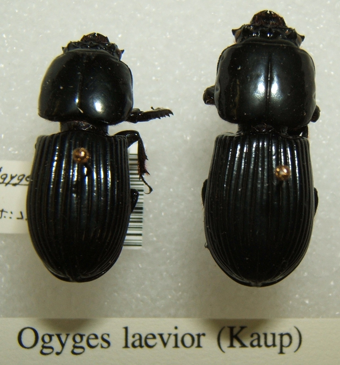 Ogyges laevior adult taken by Shawn Hanrahan at the Texas A&M University Insect Collection in College Station, Texas.